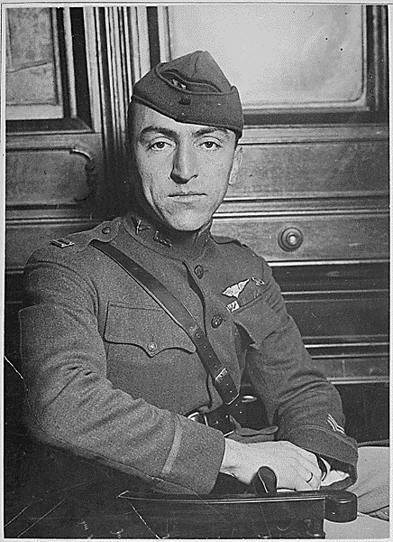 Captain Edward Rickenbacker, America's premier "Ace" officially credited with 22 enemy planes and the proud wearer of the French War Cross as he appeared upon his arrival on board the Adriatic. Underwood and Underwood., ca. 1919